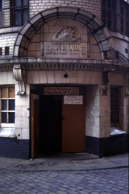 Decorative entrance A very appropriate entrance to Swan Lane No. 3 Mill, Bolton. One of the best surviving complexes although a certain Mr Dibnah did shorten the chimney.